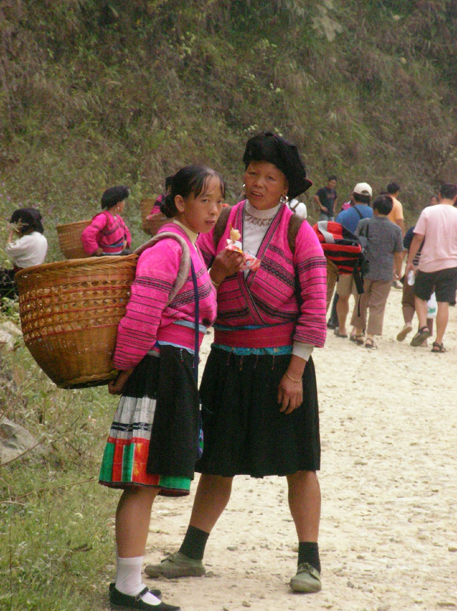 yao women waiting to carry anyhing in their baskets to the village for a fee